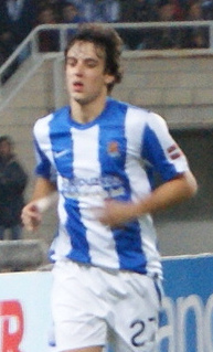 Rubén Pardo playing for Real Sociedad in 2011.